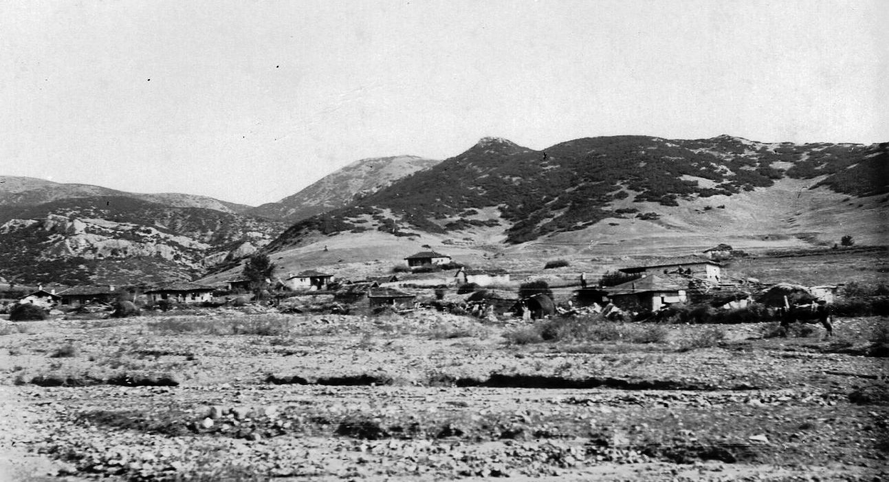 Rabrovo, village in Valandovo Municipality. Photo from 1931 This media file is produced by Wikipedian in Residence in Category:Wikipedian in Residence at DARM in 2016.